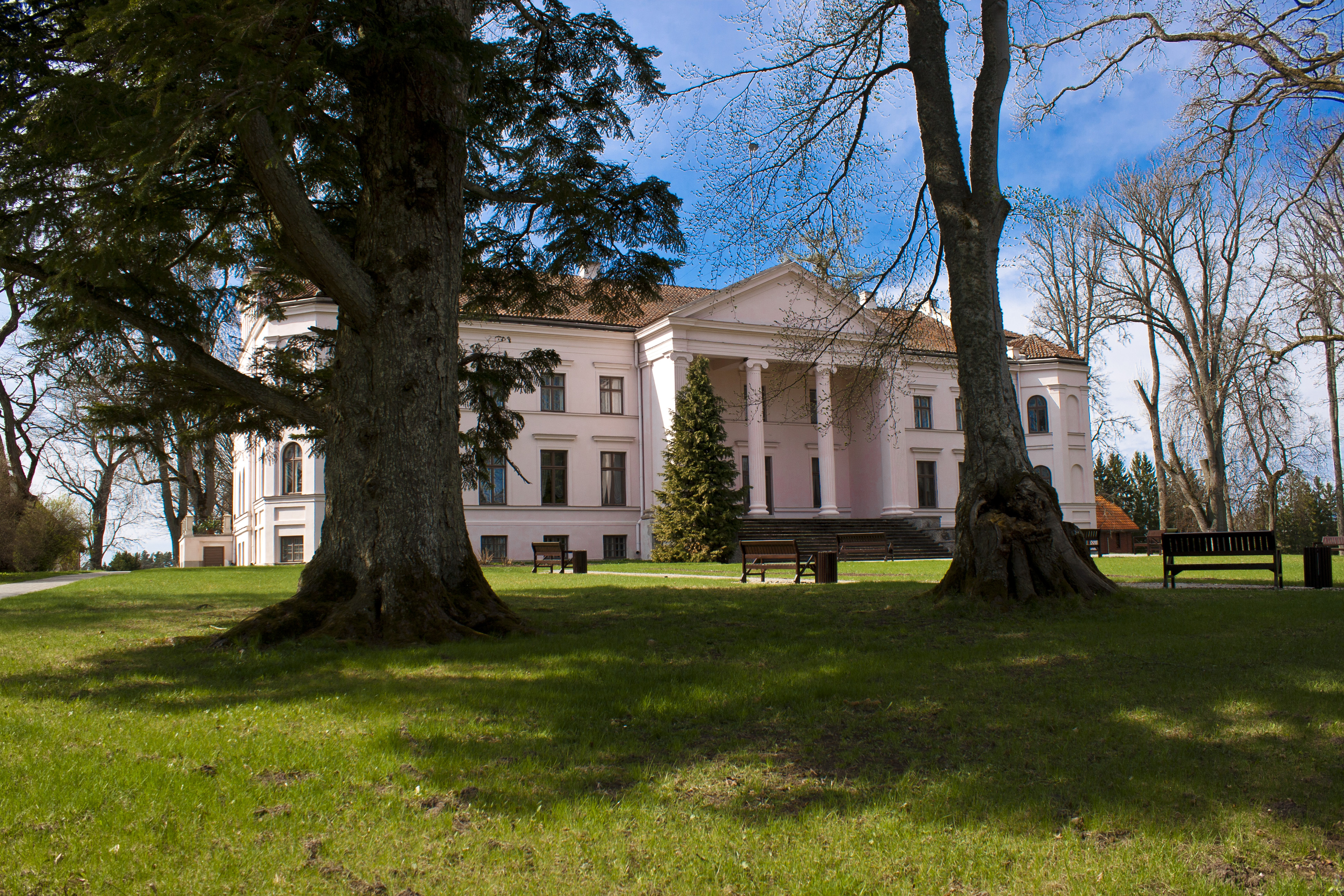 Īvande ManorLatviešu: Īvandes muižas pils un Latvijas dižākā Eiropas baltegle